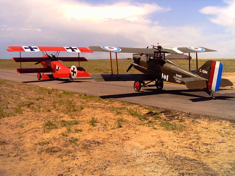 Photo of Vintage Aero Flying Museum's (Colorado) Fokker Dr.1 and SE.5 taxing at Platte Valley Airpark, Hudson Colorado. Photo courtesy of Lance Barber, Volunteer for Colorado Aviation Historical Society, May 2007. Photo free for public use. Request the usual "courtesy of" line for use out of Wikipedia. Thank you.